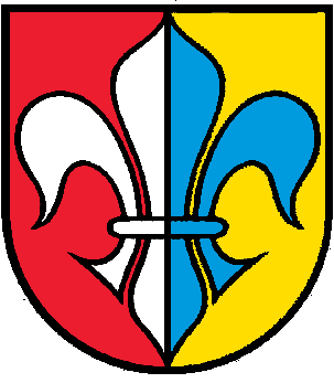 Coat of arms of the municipality of Endingen AG since 1. January 2014